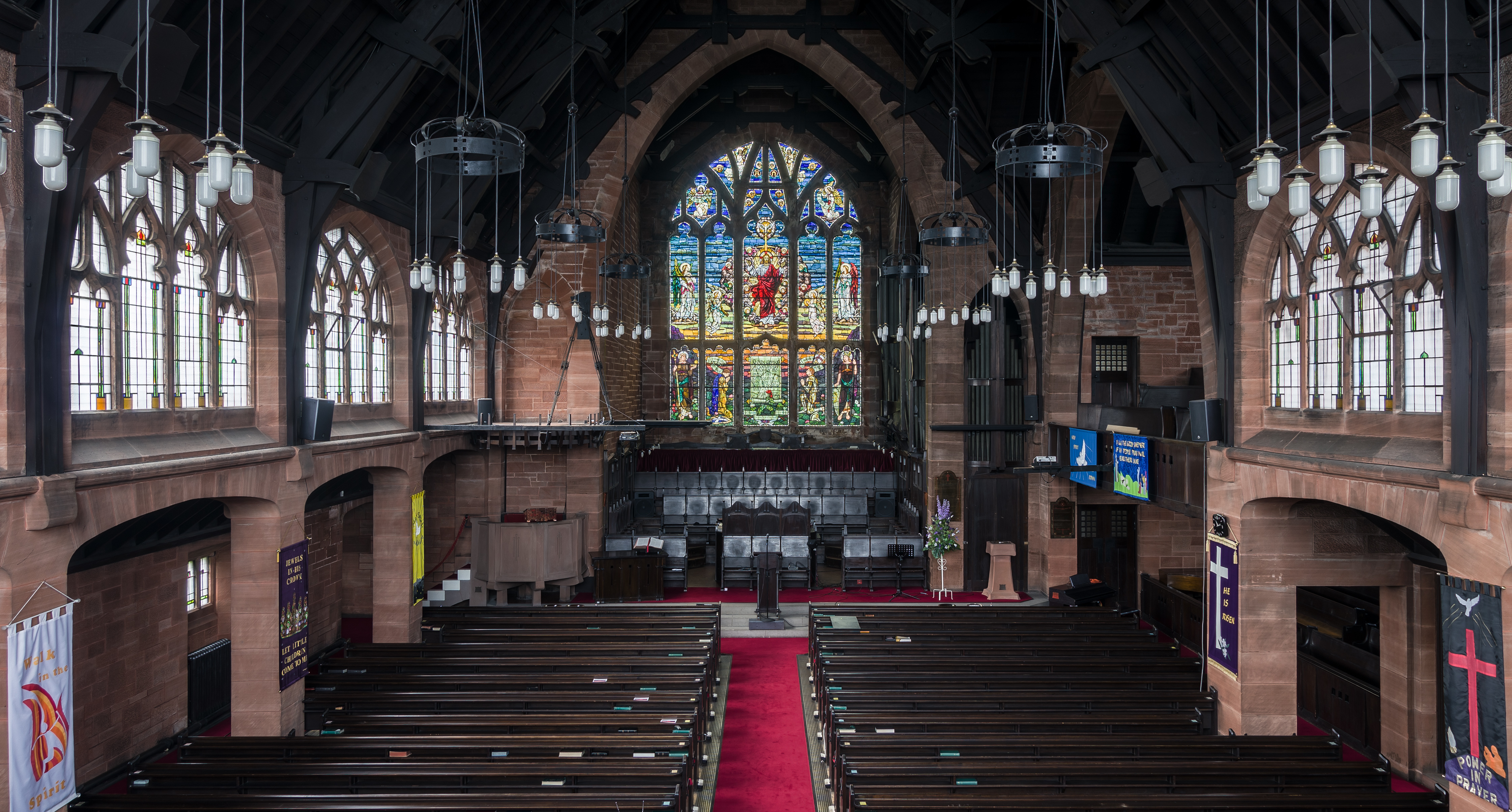 St Matthew's Church in Paisley is an Art Nouveau church built in 1905–07. The architect, W. D. McLennan, designed the building and many interior furnishings, including the organ case, font and pulpit. This view of the interior is from the rear gallery and features the stained glass window by Robert Anning Bell. The church interior consists of a wide nave with galleries to the right side and the rear. The pulpit on the left hand side features a wooden crown of thorns above. The right of the choir features a large organ, which is still in use. A number of small rooms are found around the church along with halls to the rear. A tulip motif appears throughout the building, featuring on woodwork, stone, stained glass, the pulpit's brass lectern, and even the light switches. The windows are mostly plain white with small coloured-glass features. The exception is the huge stained glass window on the west side behind the choir — this is not the original (which was similar in design to the others) but was replaced as a memorial to the Great War. Photographer's notes: I took this photograph from the rear gallery with a Sony A33 camera and Tamron 17-50mm lens at 17mm, mounted on a tripod. In order to capture the dynamic range I took seven photographs at ISO 100, f/8 from 1/40 to 5s (possibly the darkest of which was not required). I used Lightroom to apply lens distortion-correction and a mild degree of noise reduction.Then I aligned and merged them in Photoshop to produce a 32-bit HDR tiff that was re-imported to Lightroom. Finally I adjusted the levels and applied a very small amount of vertical, horizontal and rotational transformation to fix the camera angle.